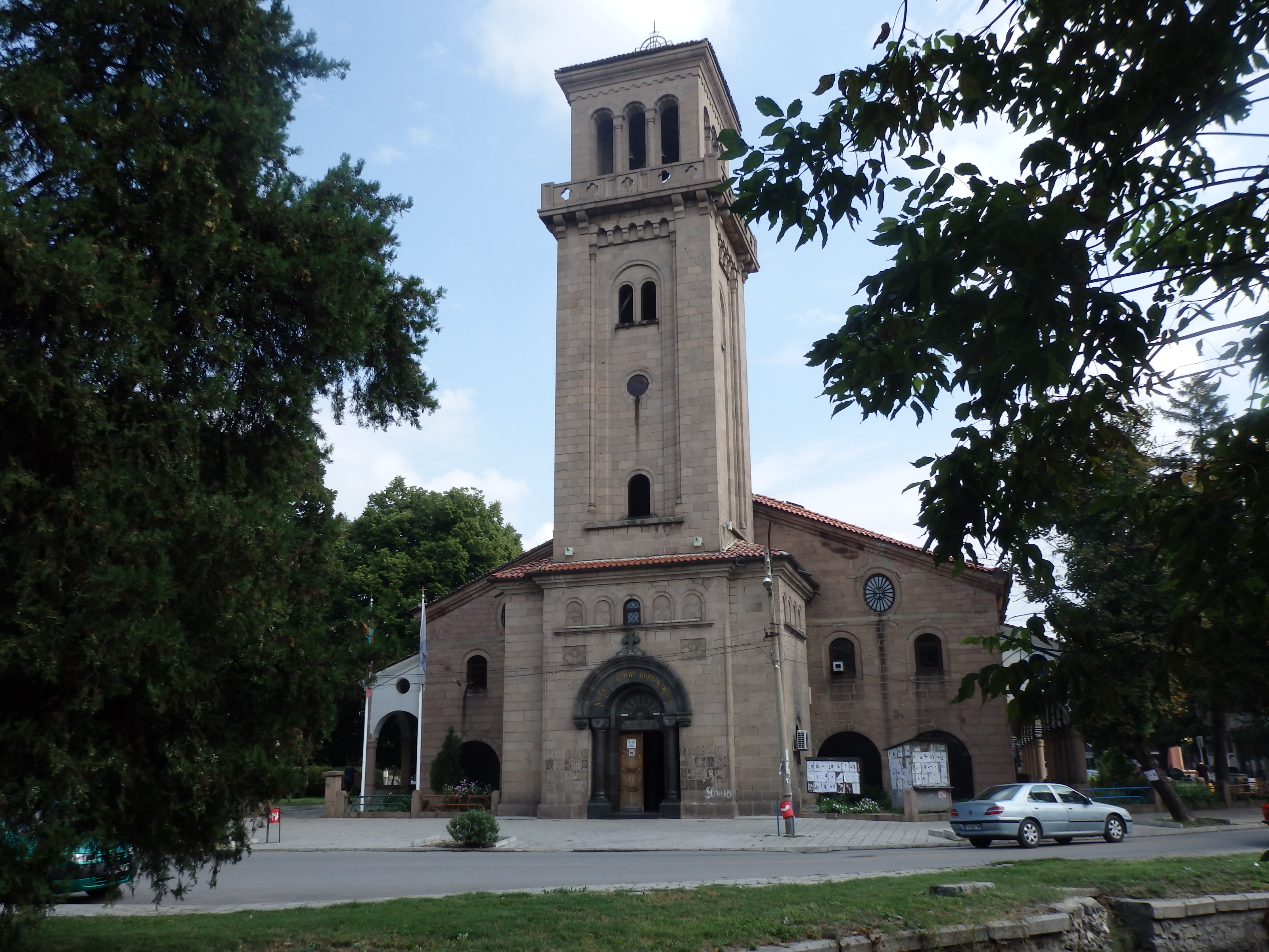 Church Sv Bogotodica Pazarjik